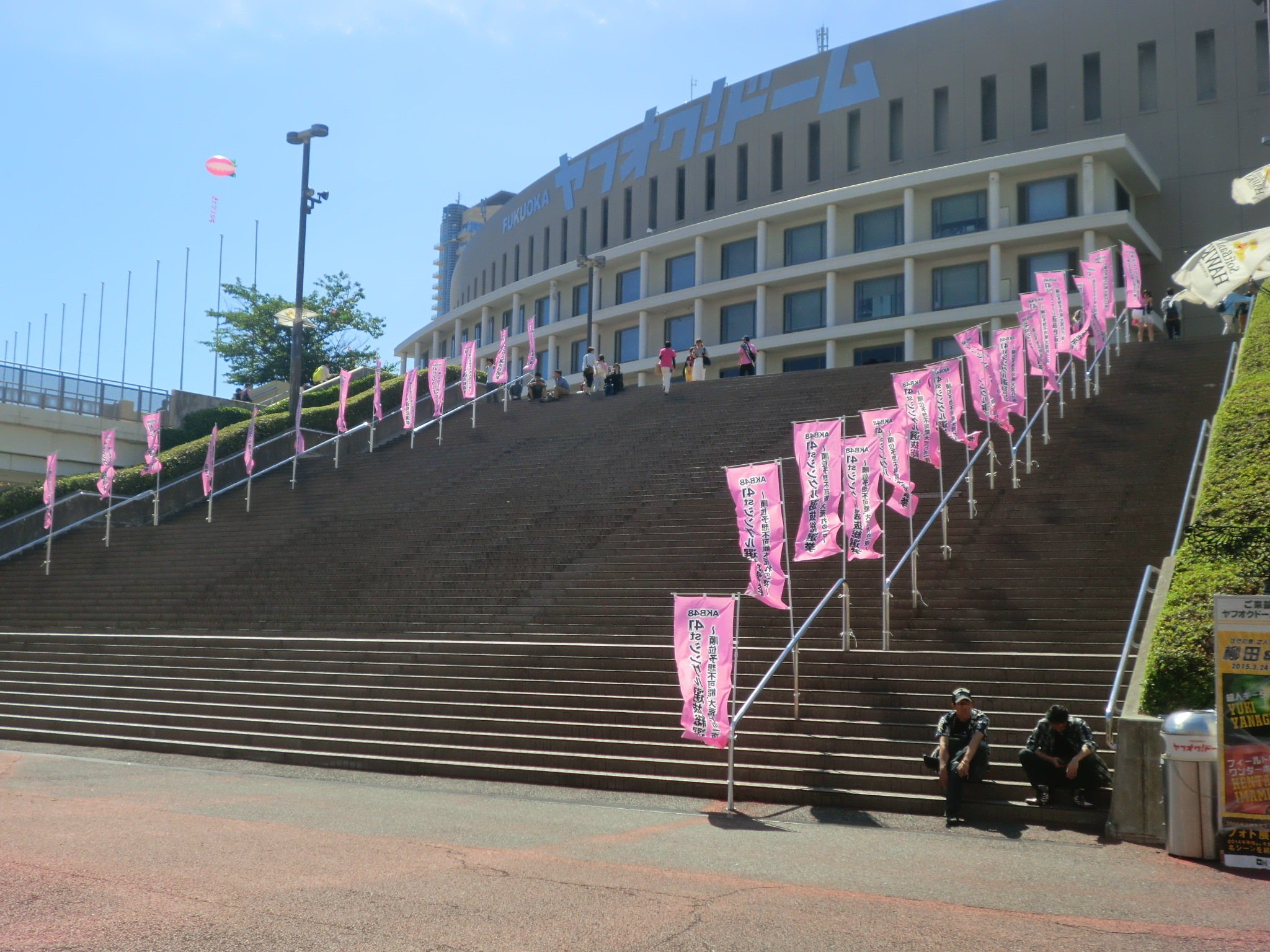 Bustling just before vote counting event of AKB48 General Election 2015 at Fukuoka Yafuoku! Dome.